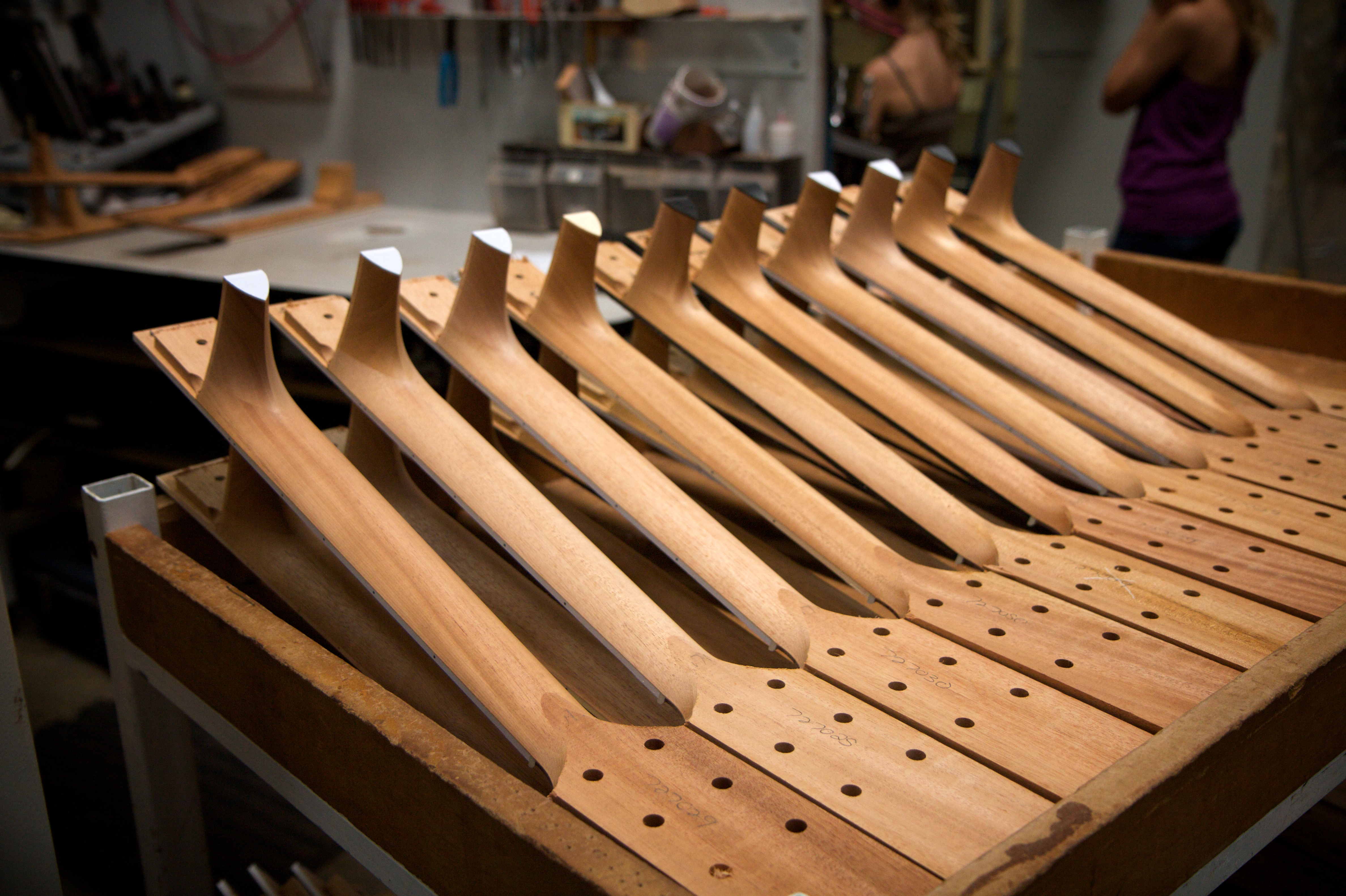 TGFT23 guitar necks - Taylor Guitar Factory